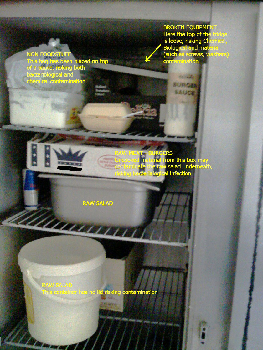 Demonstration of bad food hygeine in stored foodstuffs in a refrigerator